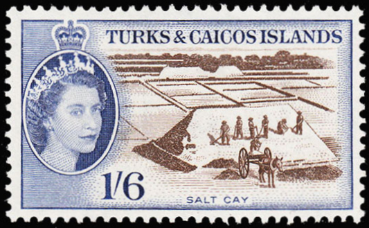 A one shilling, six pence, 1957 stamp of the Turks and Caicos Islands depicting a Salt Cay.